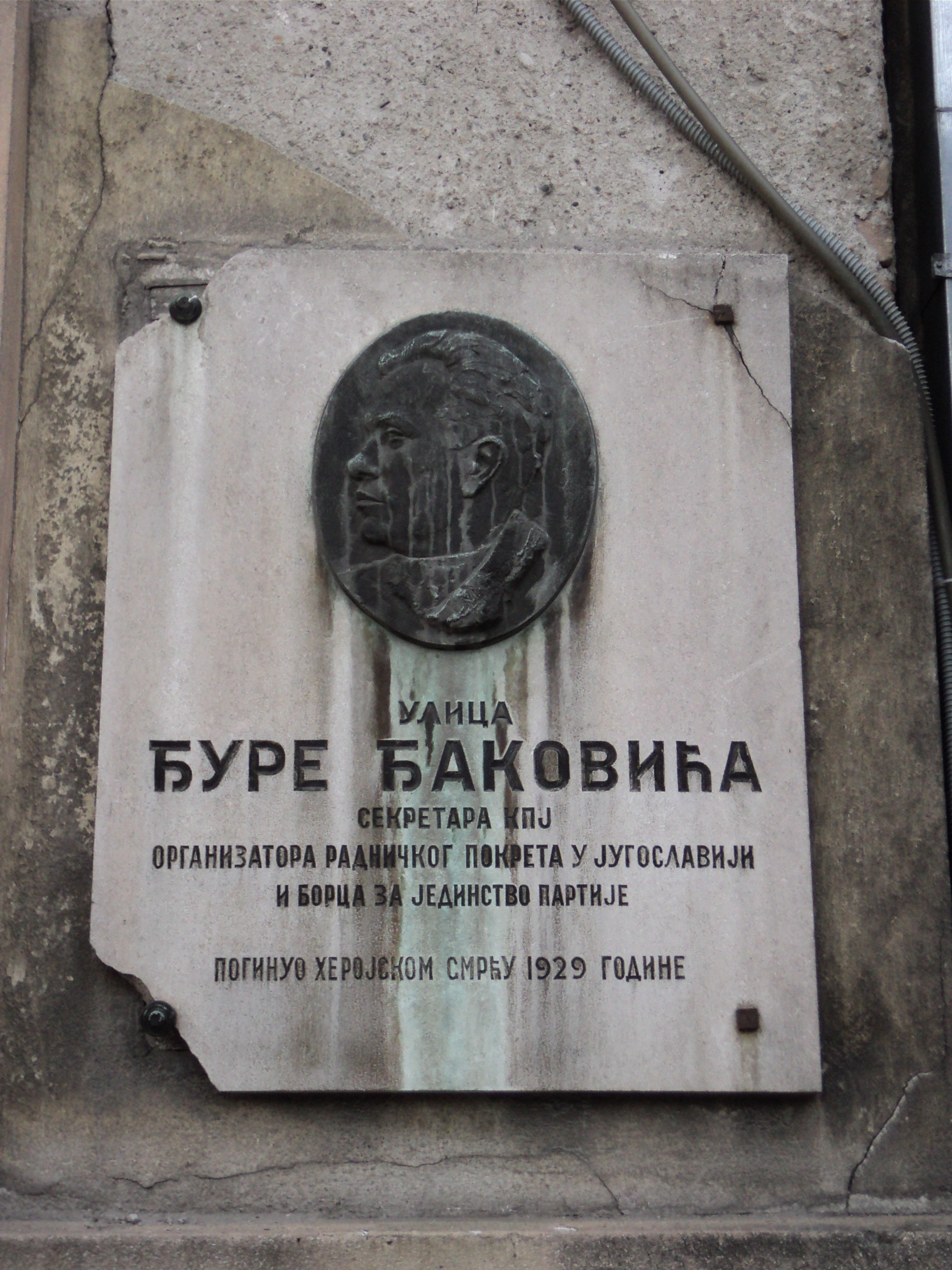 Memorial plaque dedicated to Đuro Đaković (1886-1929) in George Clemenceau Street (former Đuro Đaković Street), Belgrade.